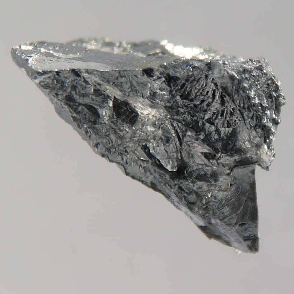 Chromium is a very hard and shiny silvery metal and has many colorful compounds. A lot of these are quite toxic. Chromium(VI), e.g. as CrO3, is a very dangerous environmental toxin. Elemental chromium is widely used for plating for optical reasons and corrosion protection. Chromium is added to steel, to make it stainless.